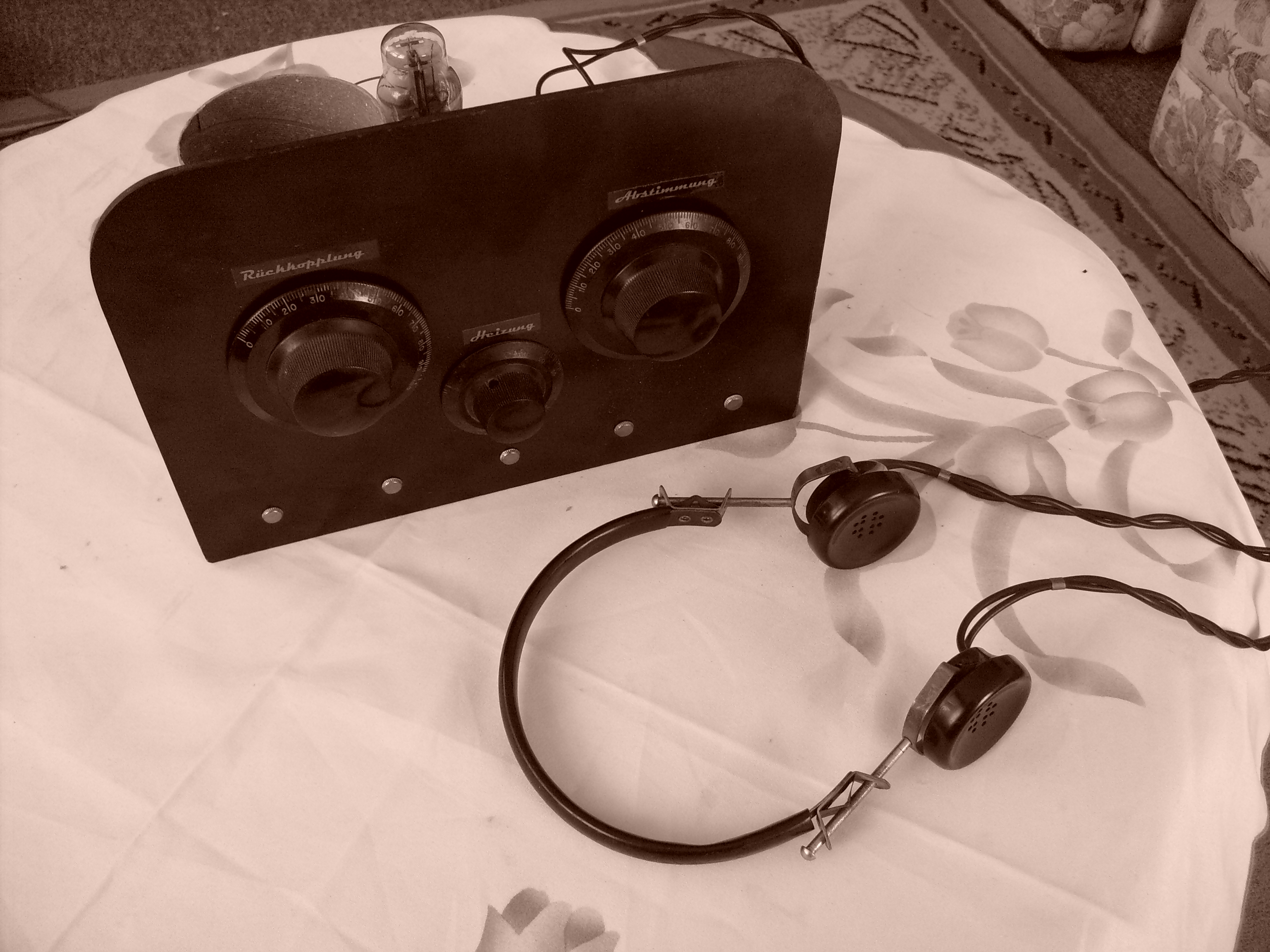 Homemade single tube Armstrong regenerative shortwave radio receiver using construction apparently dating from 1930s-1940s. The regenerative receiver design was abandoned by commercial radio manufacturers in the 1920s due to its tendency to radiate interference, but due to its simplicity and low cost continued to be built by radio amateurs for shortwave listening until World War 2. The controls on the front panel are: (left) regeneration control, which increased the feedback to the tube; (bottom center) filament rehostat, which controlled the current to the filament of the triode vacuum tube, serving as a volume control; (right) tuning capacitor.